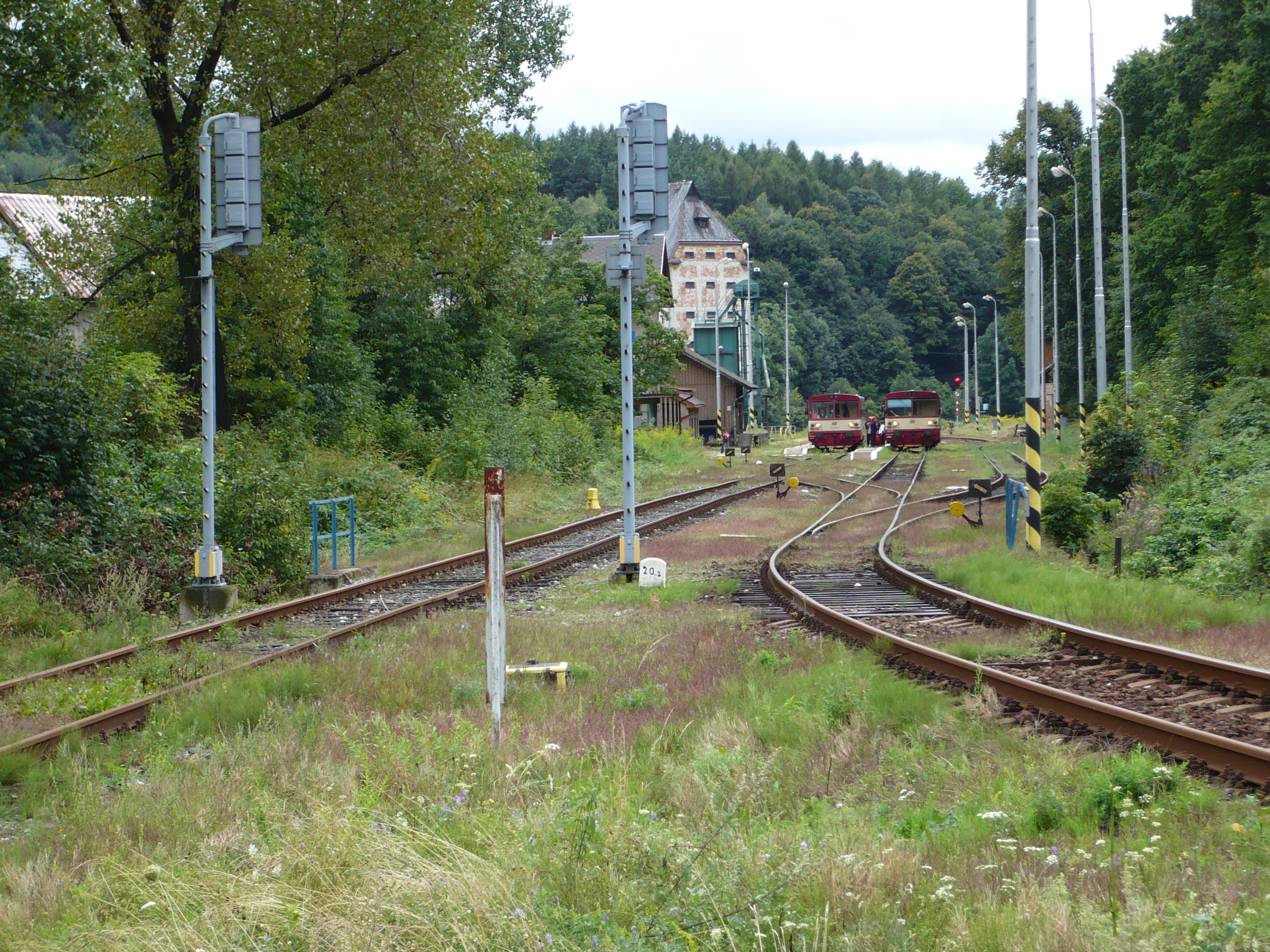 Trains to Vidnava (left) and Jeseník (810 161 0) in Velká Kraš